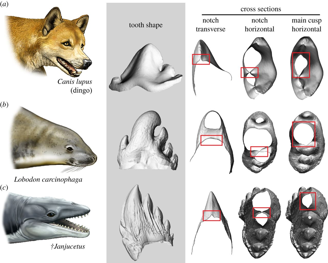 Comparison of teeth between Janjucetus hunderi, Lobodon carcinophaga, and Canis lupus dingo. Tooth sharpness in marine mammals varies among species. Comparison of the postcanine teeth of (a) an extant terrestrial carnivoran, the dingo Canis lupus (NMV C25871, mirrored), with that of (b) an extant seal known to employ tooth-based suction filter feeding (crabeater seal, Lobodon carcinophaga, NMV C7392), and (c) the extinct toothed mysticete †Janjucetus (NMV P252376; see electronic supplementary material for diagnosis). Note the sharp cutting edges in the dingo and †Janjucetus. Three-dimensional surface models not to scale.